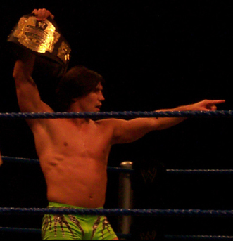 Paul London @ Adelaide, South Australia 'Smackdown' house show on the 10th of April '05